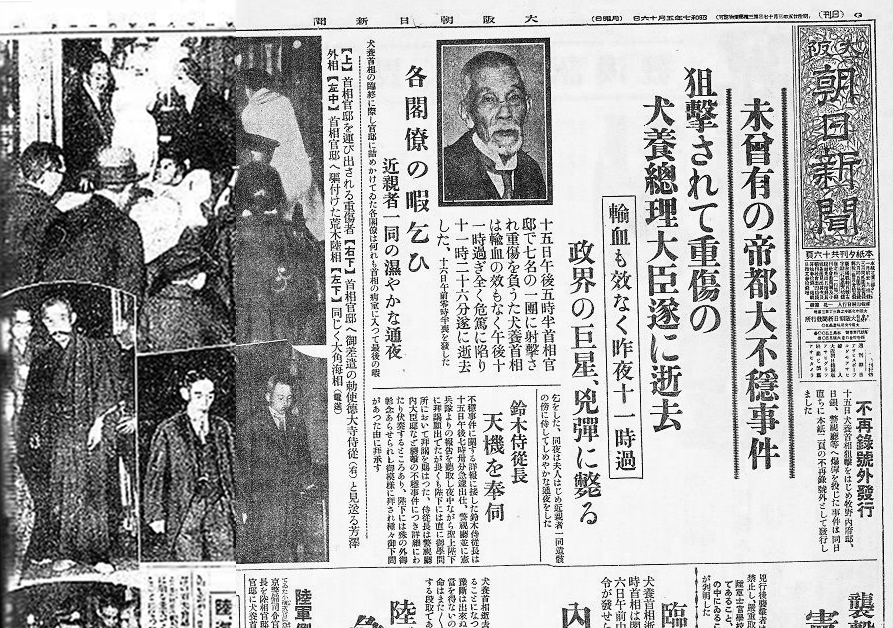 The newspaper which conveys May 15 Incident.